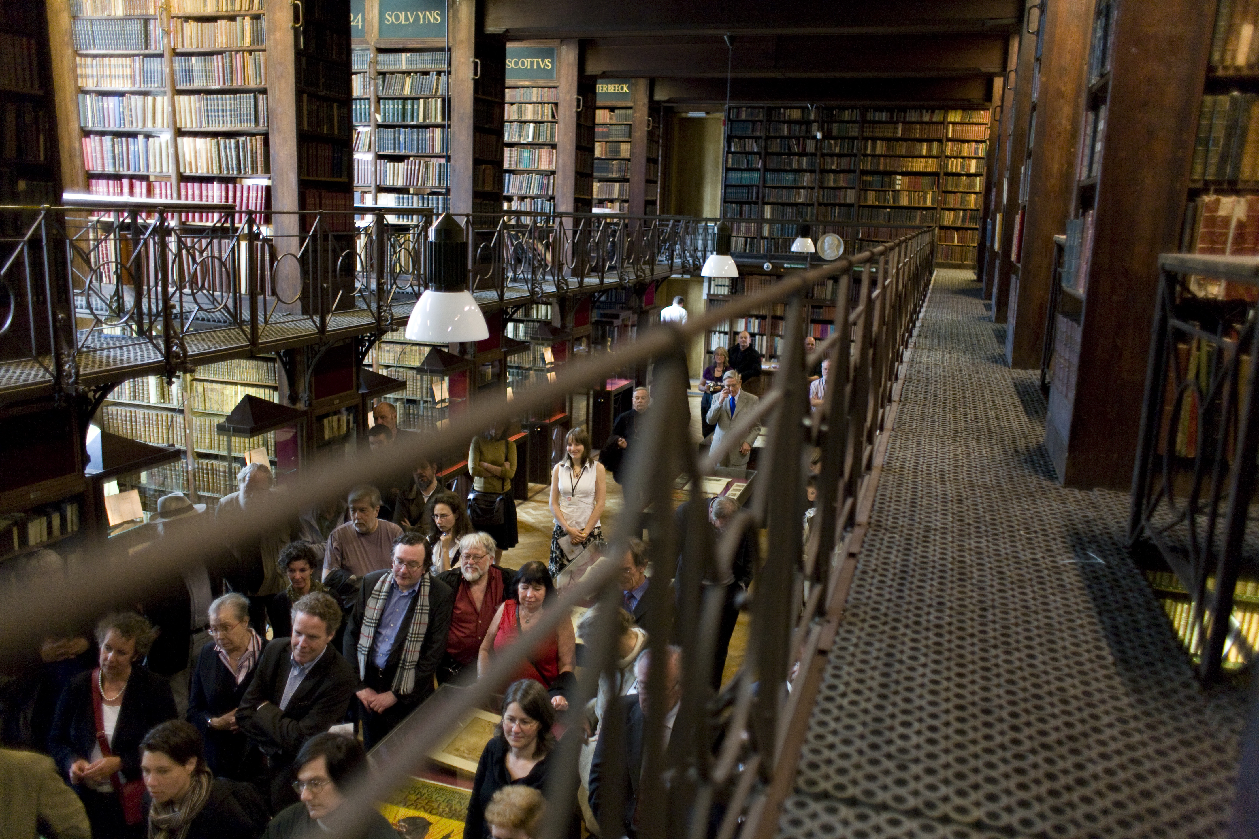 Nottebohmzaal